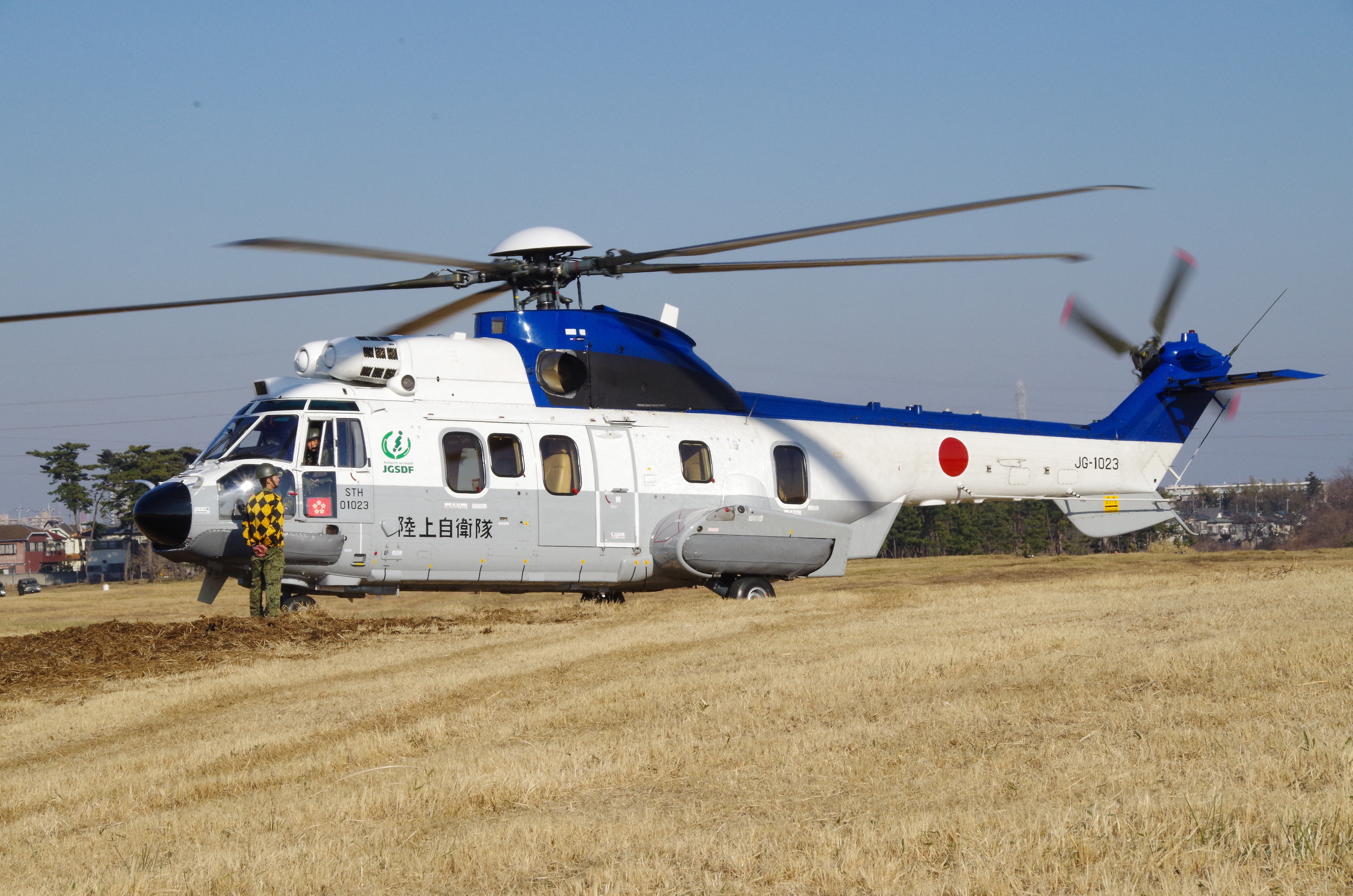 JGSDF Eurocopter EC 225 helicopter(S/N JG-1023),for Minister of Defense,Special Transportation Helicopter Unit / 1st Helicopter Brigade.Taken by Los688,in Narashino,Japan,at 12-Jan-2014,JGSDF 1st Airborne Brigade 2014 first drop manuver.PD-self ユーロコプターEC225 2014年01月12日、第一空挺団降下訓練始め。第1ヘリコプター団特別輸送ヘリコプター隊、防衛大臣輸送用（機首に5つの桜星）、習志野演習場にて撮影。